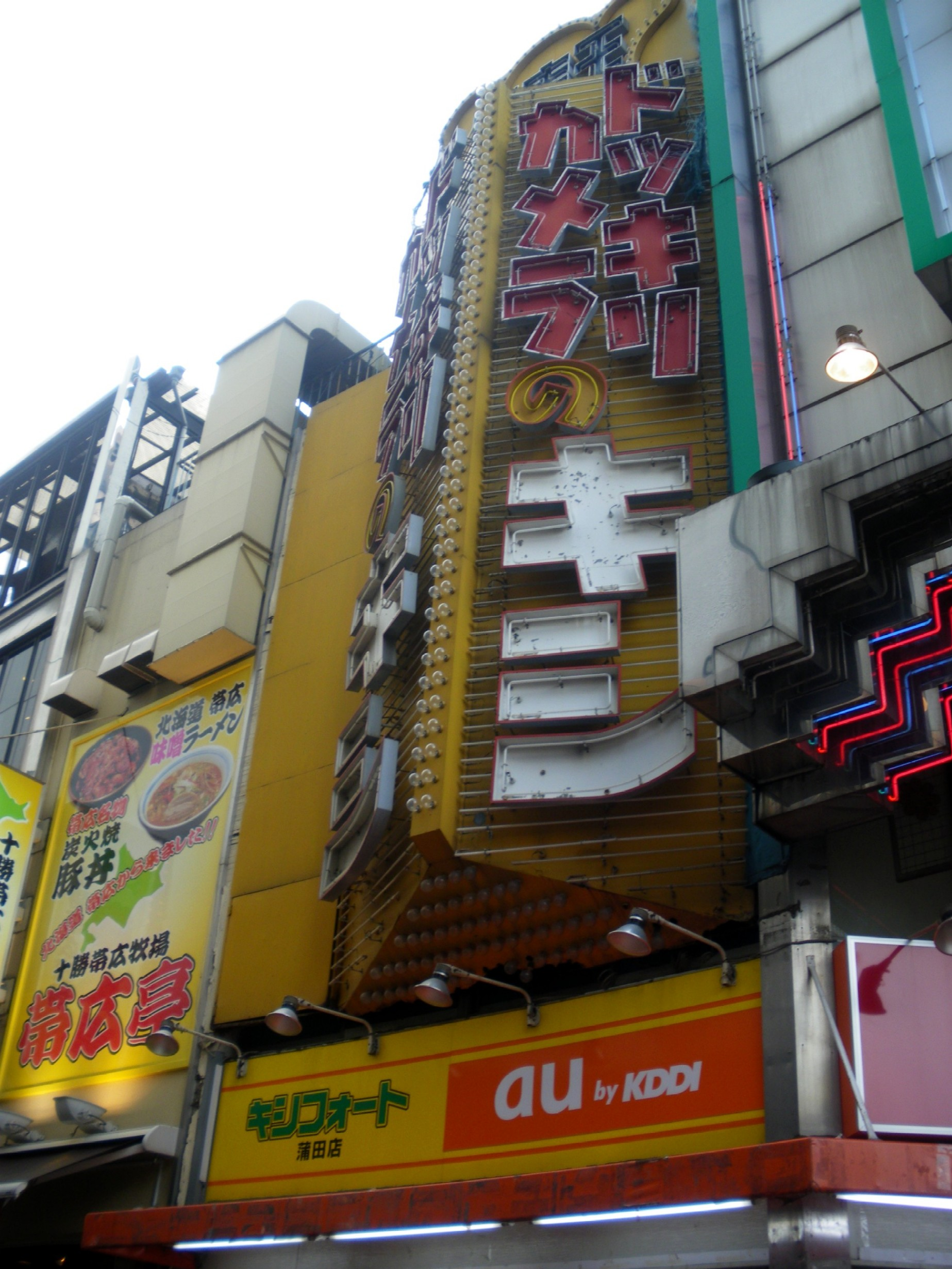 Kishi photo Kamata store